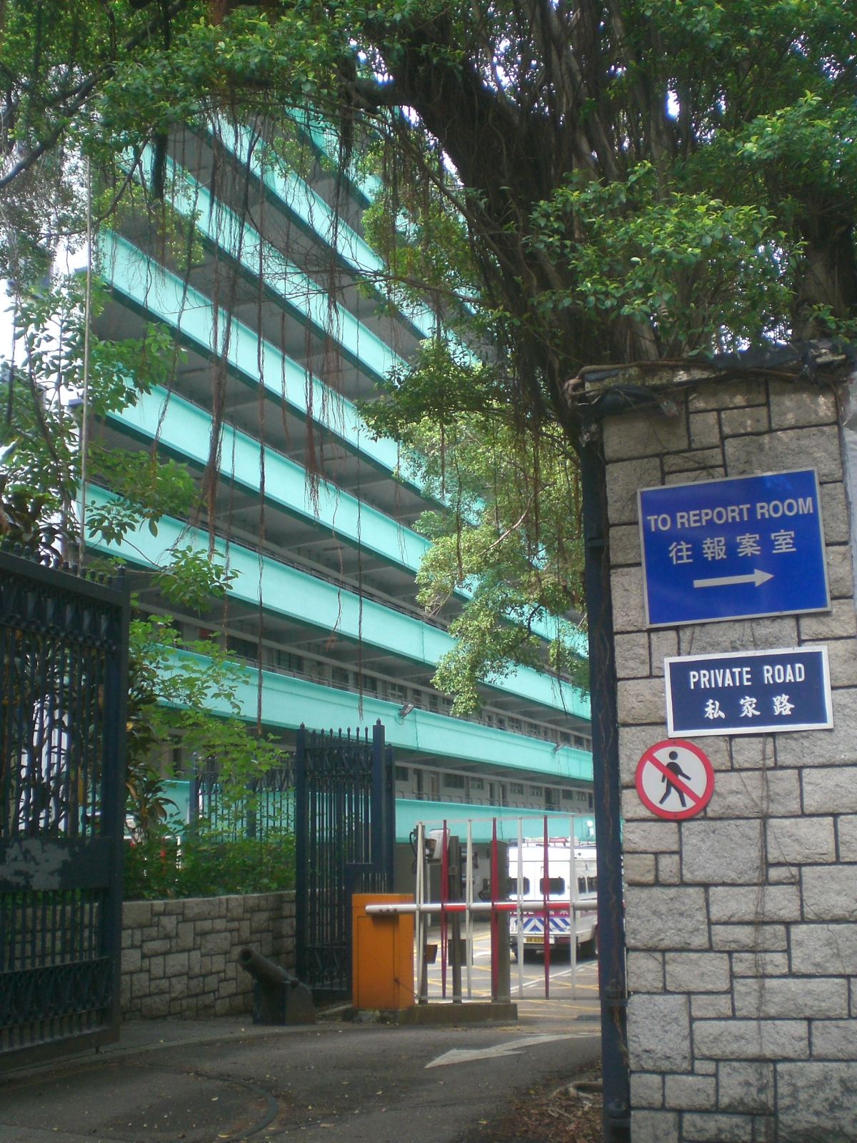 西環 西邊街 西區警署 警察宿舍 私家路